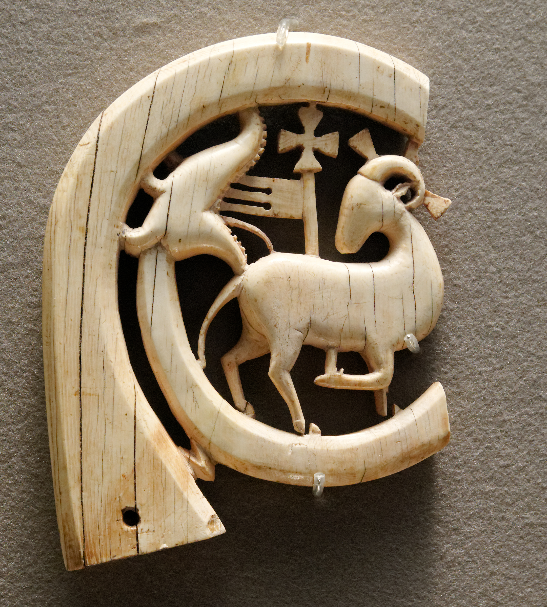 Crozier representing a lamb, Italian art.